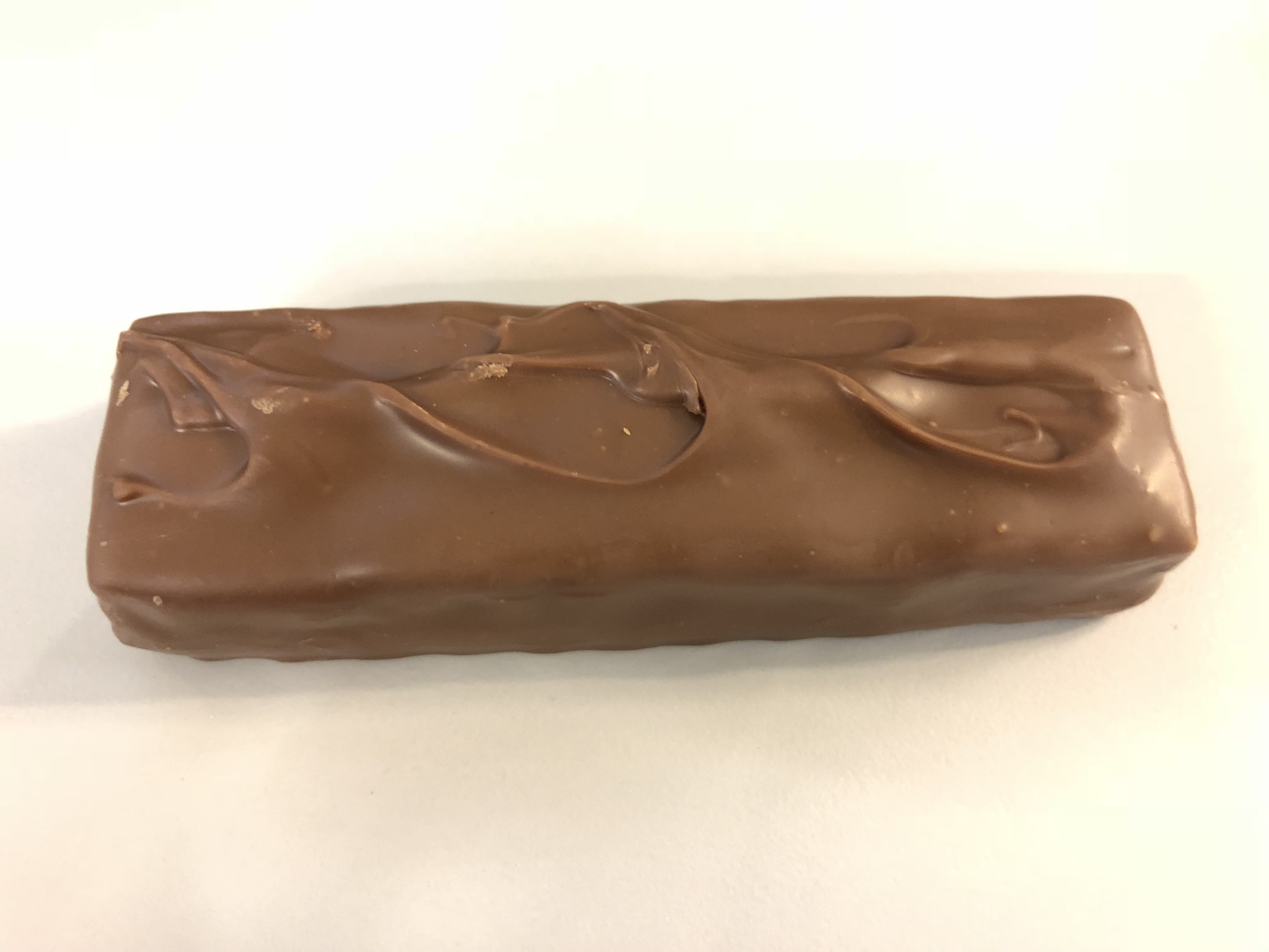 A Snickers bar with the wrapper removed in the Dulles section of Sterling, Loudoun County, Virginia